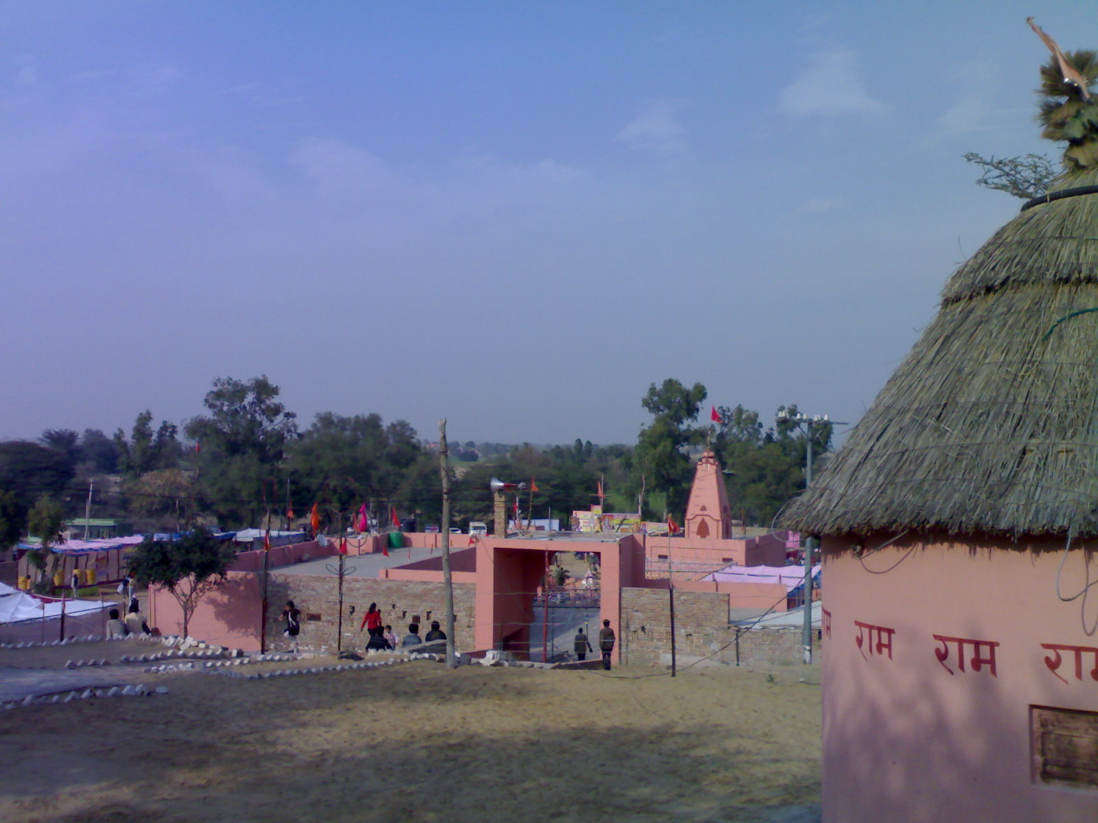 This photo show you full view of Rojhri temple complex.This photo is created by me(user:Shemaroo aka Sivender Singh, ) Shemaroo (talk) 16:02, 3 March 2011 (UTC)